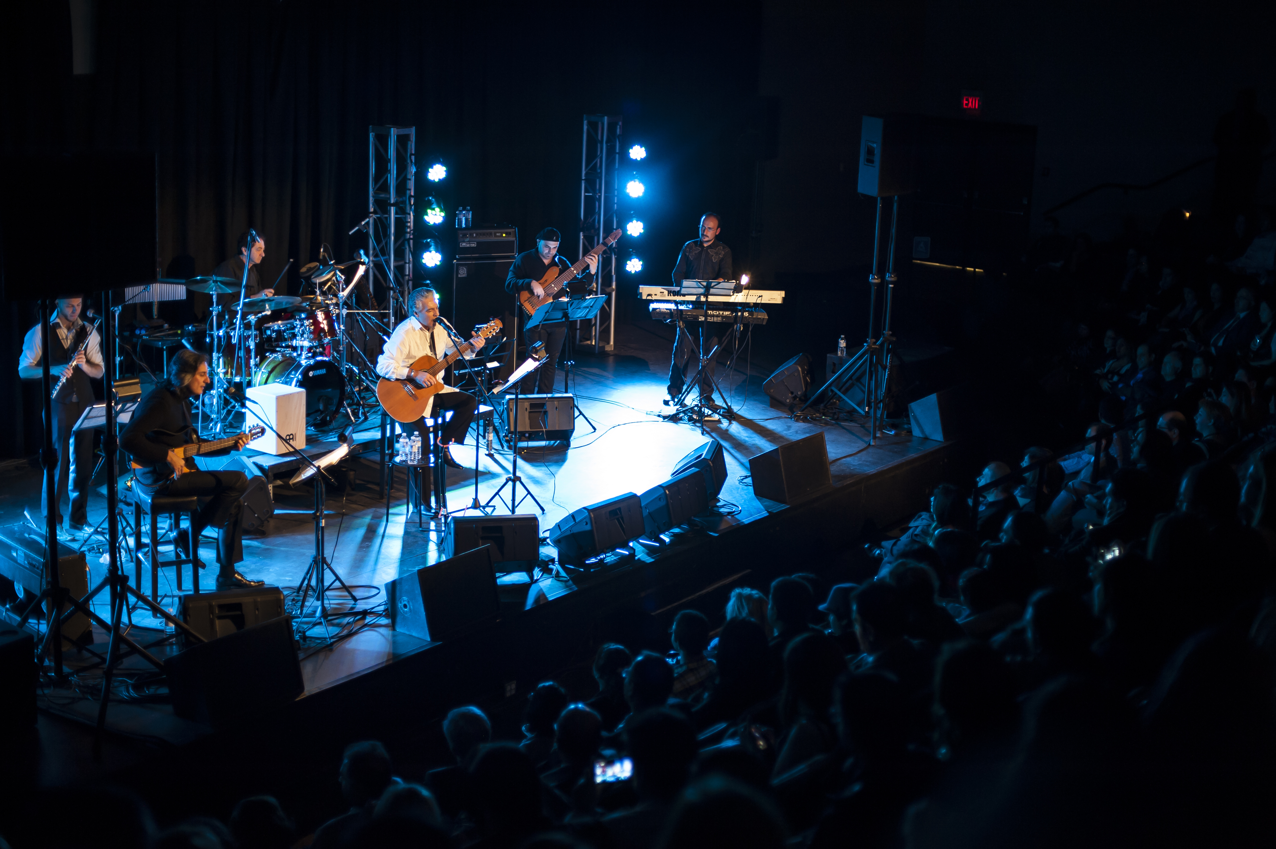 The concert of Persian pop singer FARAMARZ ASLANI at Boyce Theatre, Calgary, Canada, Nov. 2013. Photo by Dena Barmas / PDN.